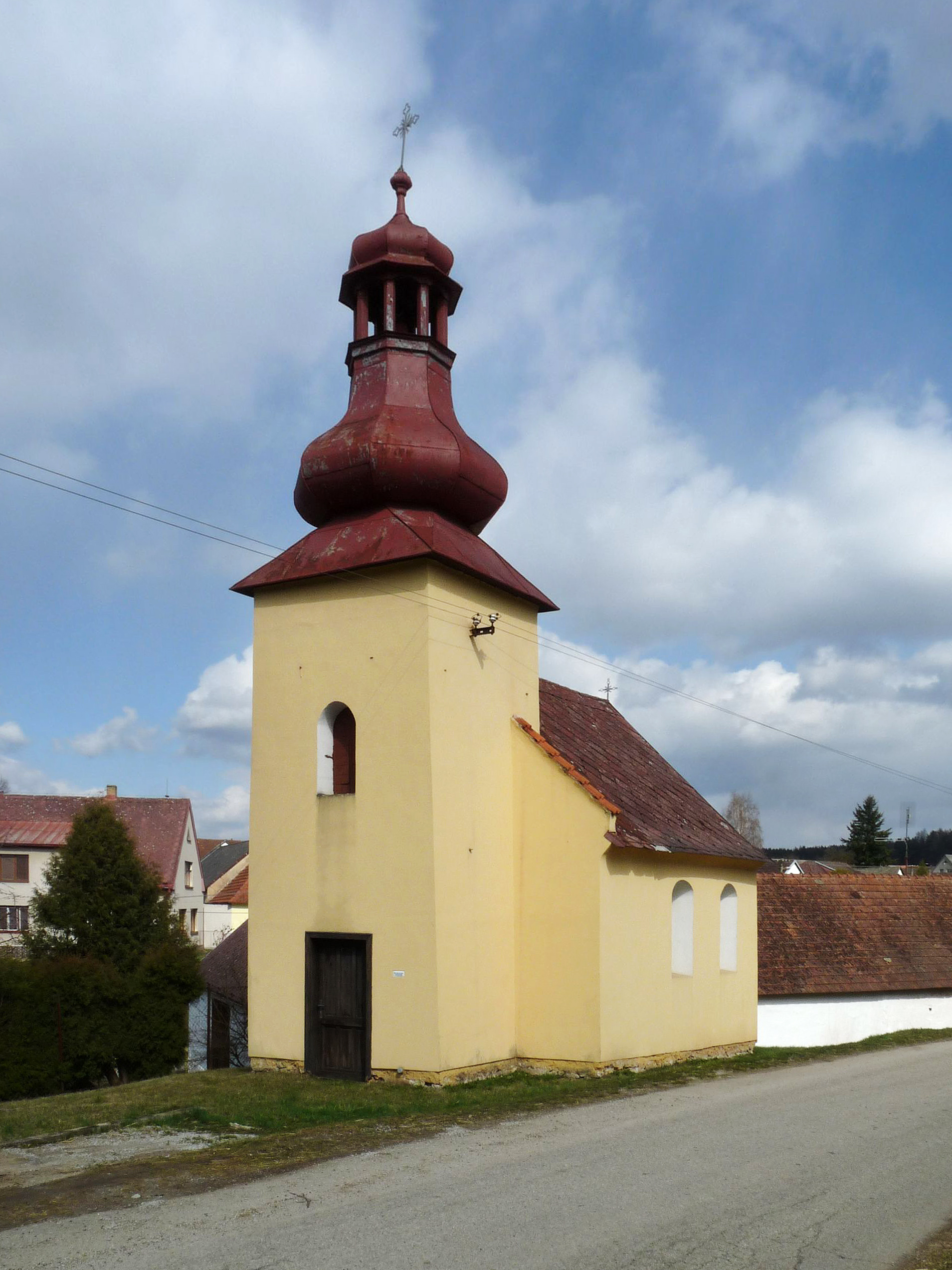 Chapel in the village of Jižná, Jindřichův Hradec District, Czech Republic.